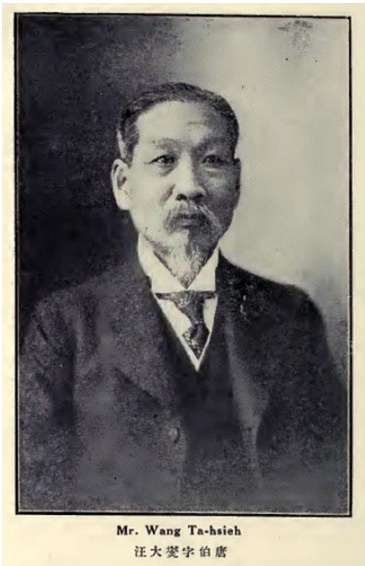 Wang Daxie (1860 - 1929)